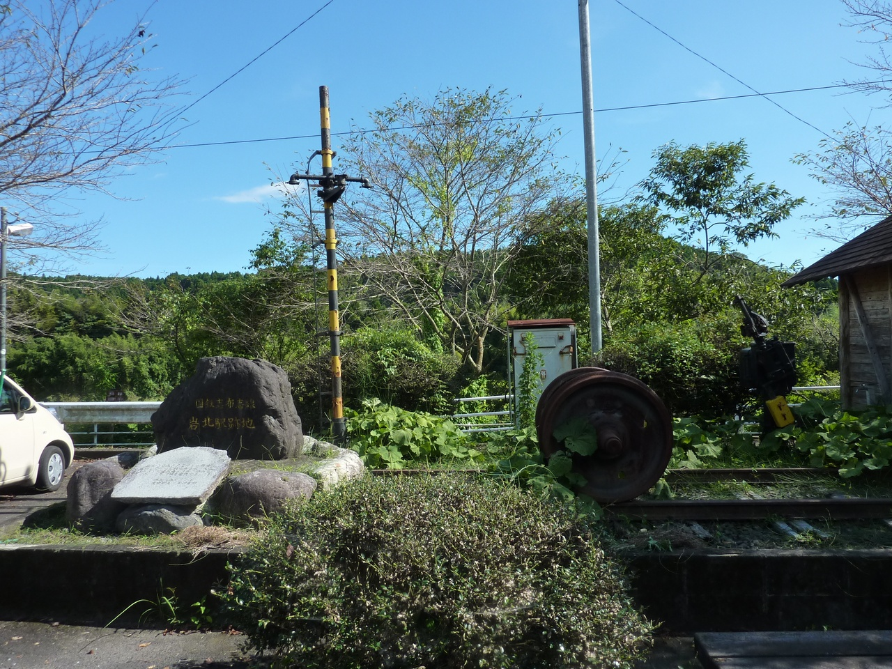 Former Iwakita Station (JNR Shibushi Line, 1934-1987) This station was located in Sueyoshi, Soo City, Kagoshima, Japan.